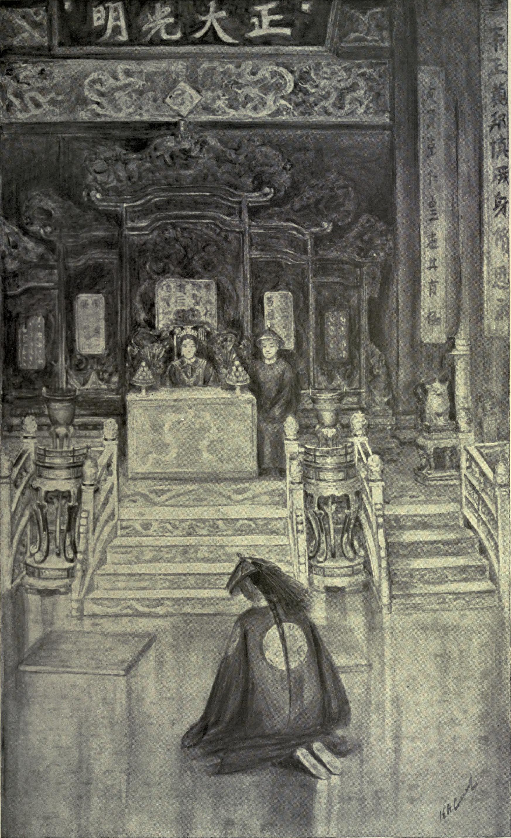 The Official Audience of Their Majesties